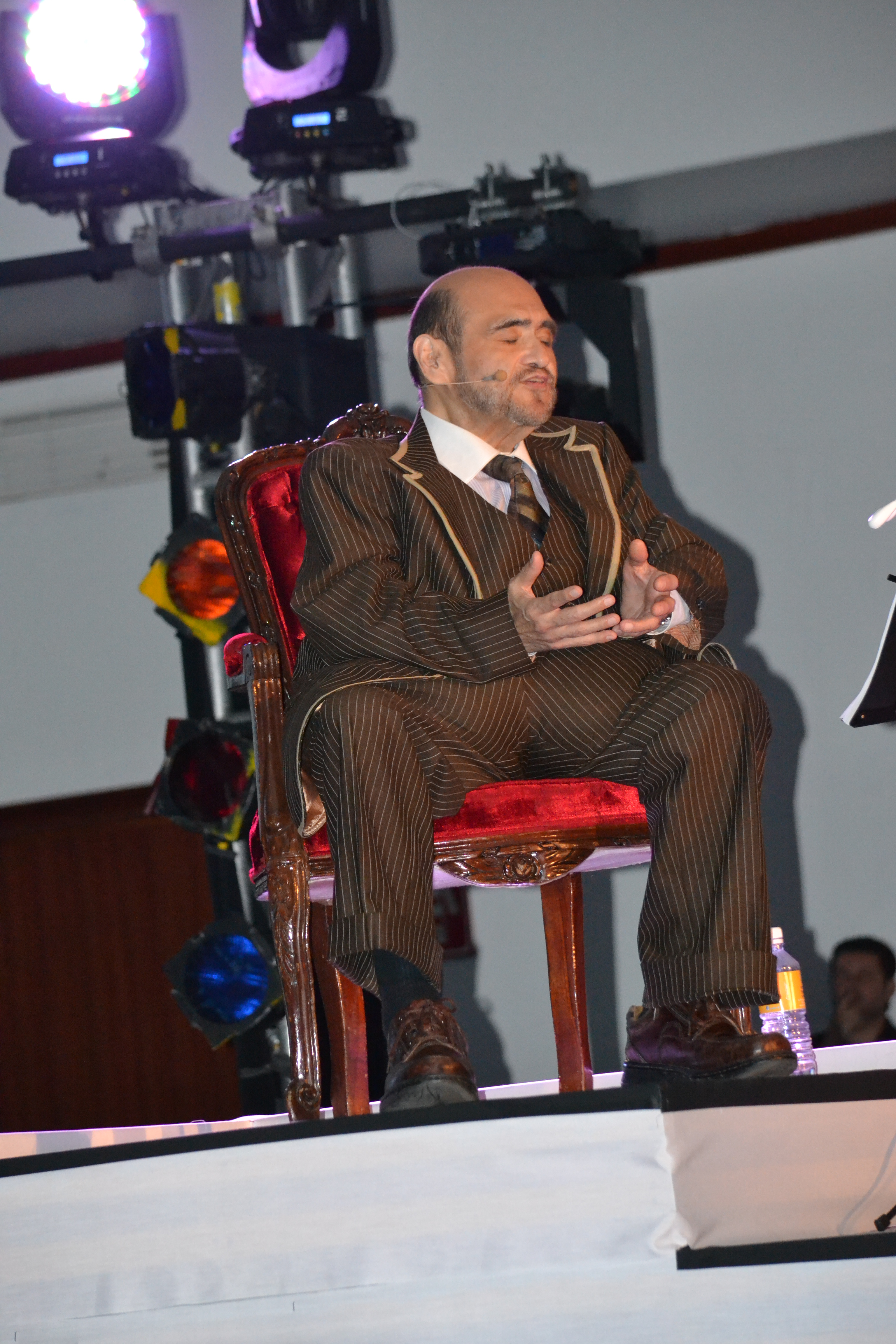 Édgar Viviar at the ITESM-CCM in the "Requiem for Agustin Lara"